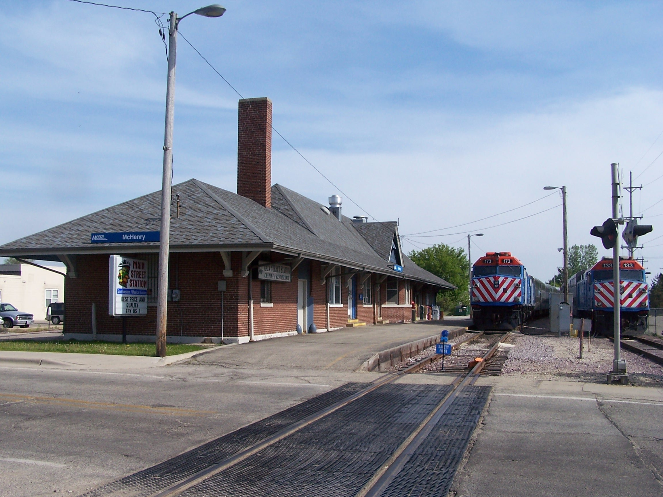 McHenry, Illinois Metra Railroad Station